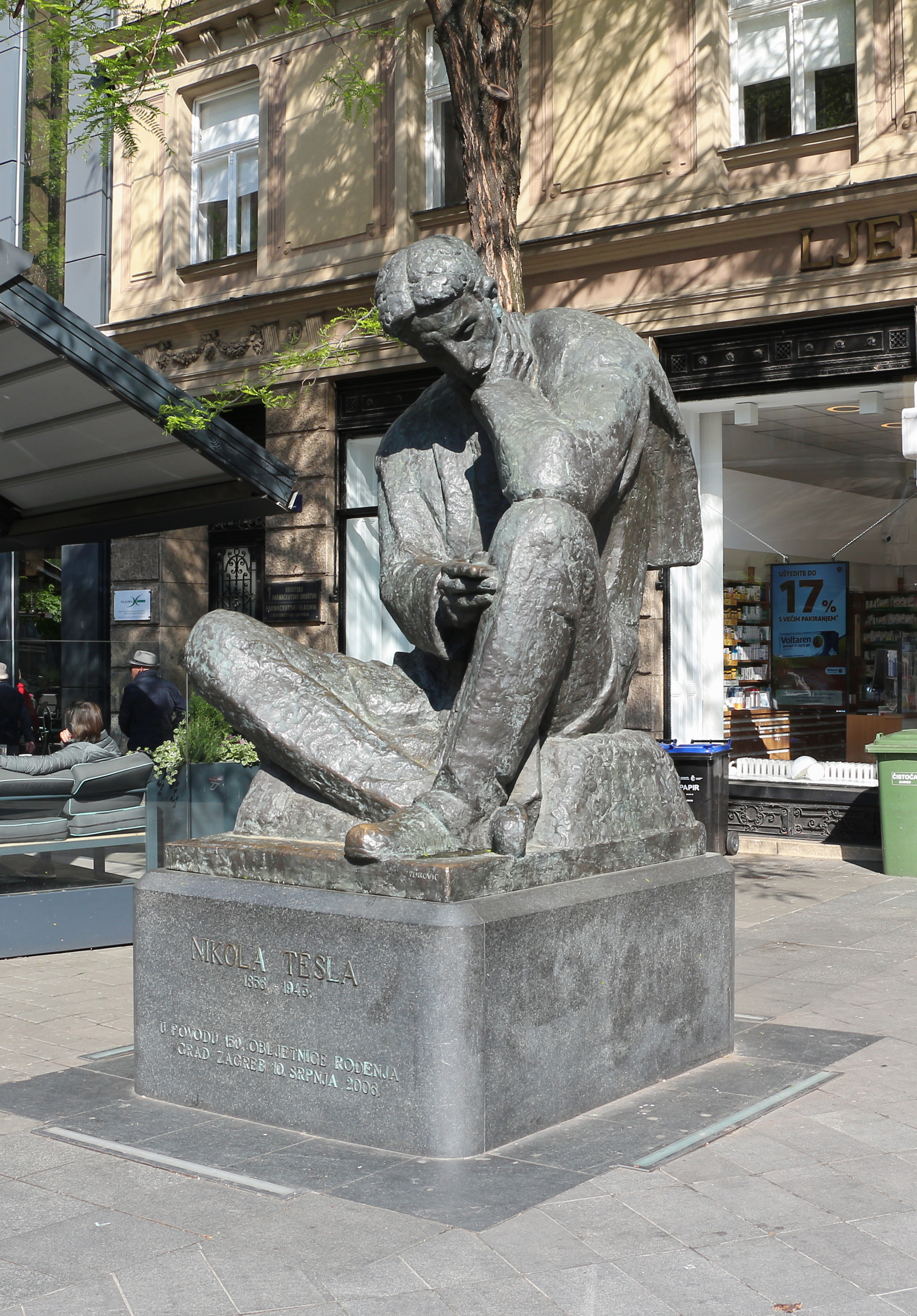 Nikola Tesla statue in Zagreb, Croatia